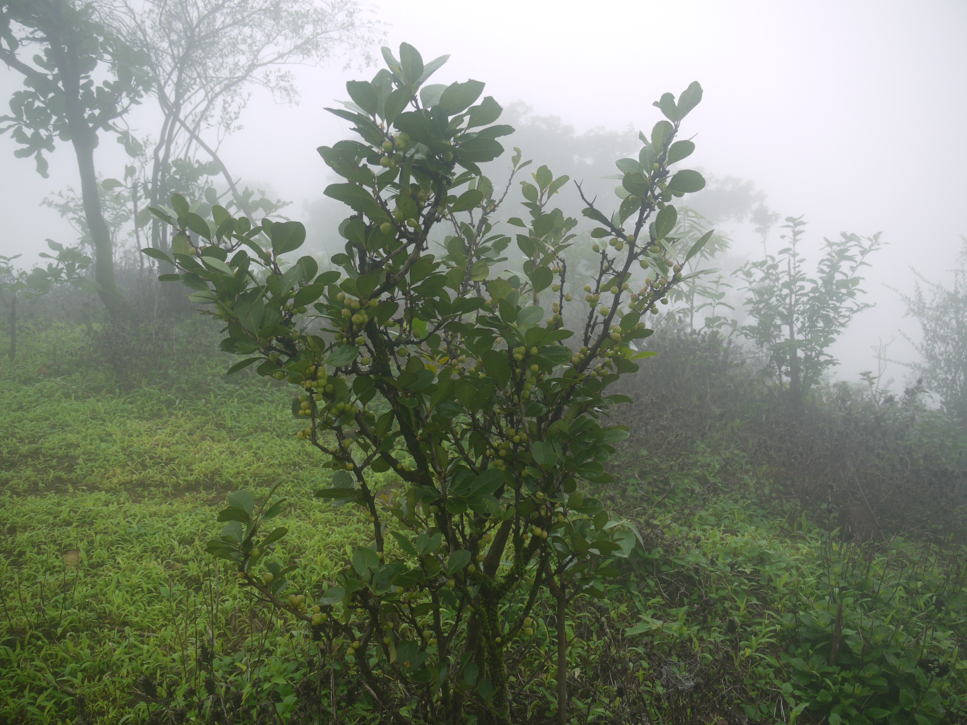 Celastraceae (staff vine or bittersweet family) » Gymnosporia rothiana jim-no-SPOR-ee-uh -- from the Greek gymnos (naked) and spora (seed) roth-ee-AY-nuh -- named for Dr A W Roth, a German botanist commonly known as: Roth's spike thorn • Kannada: ಇಸ್ಪೀಟ ಎಲೆ ispita ele • Marathi: भालवंड or भाळवंड bhalwand, येन्कली yenkali Endemic to: Western Ghats (of India) References: Flowers of India • GRIN • Further Flowers of Sahyadri by Shrikant Ingalhalikar